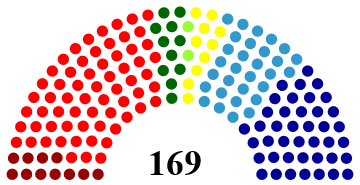 An updated chart of the Parliament of Norway in the 2009-2013 term.